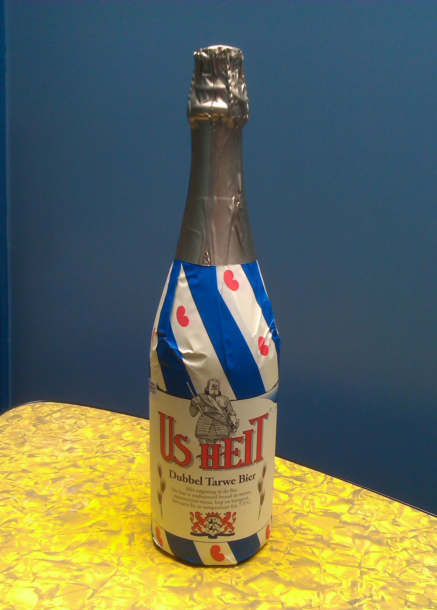 Us Heit Dubbel Tarwe Bier.